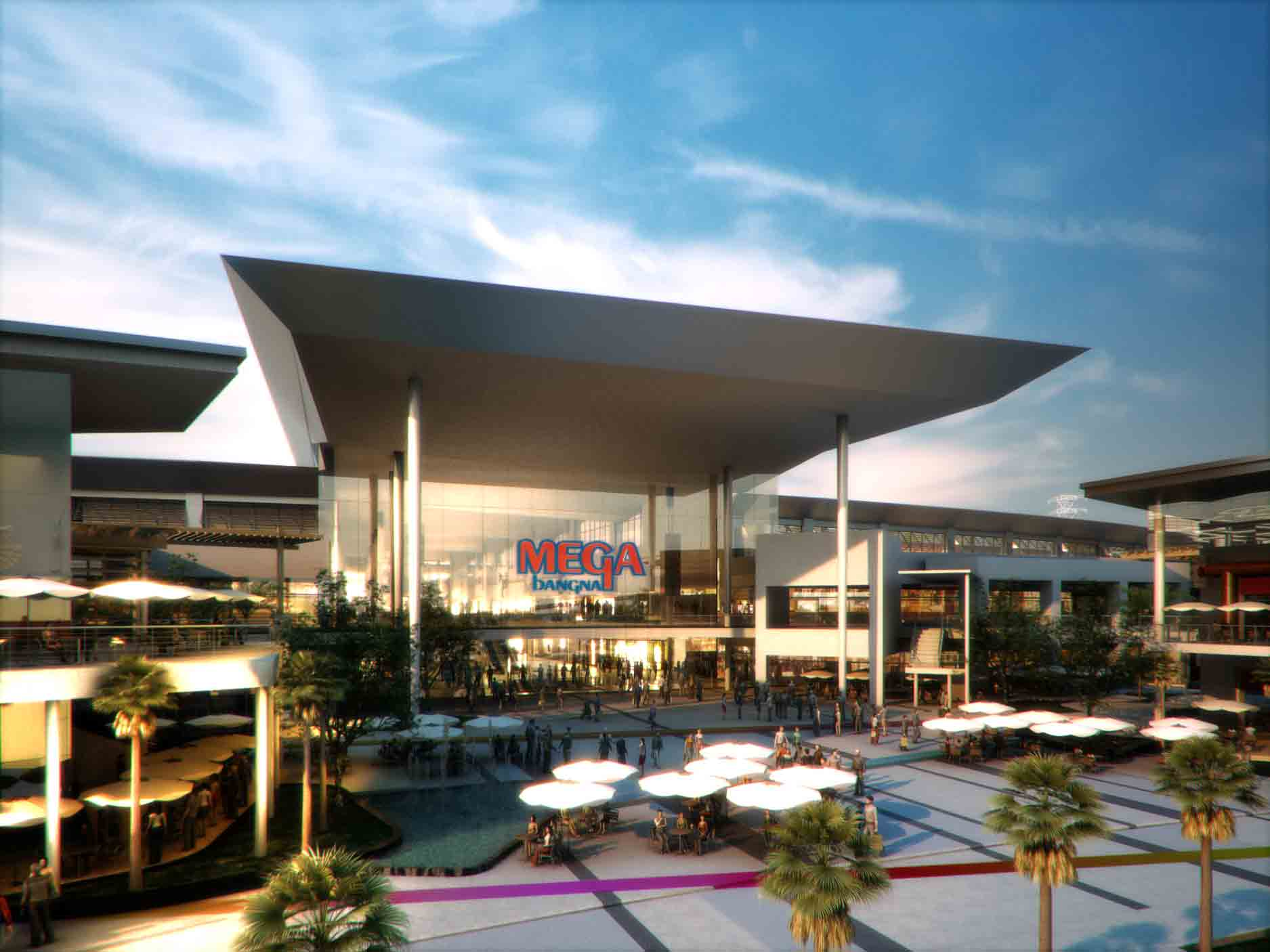 a picture of mega-bangna the biggest store in thailand